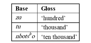 ersu bases for hundred, thousand and ten thousand.